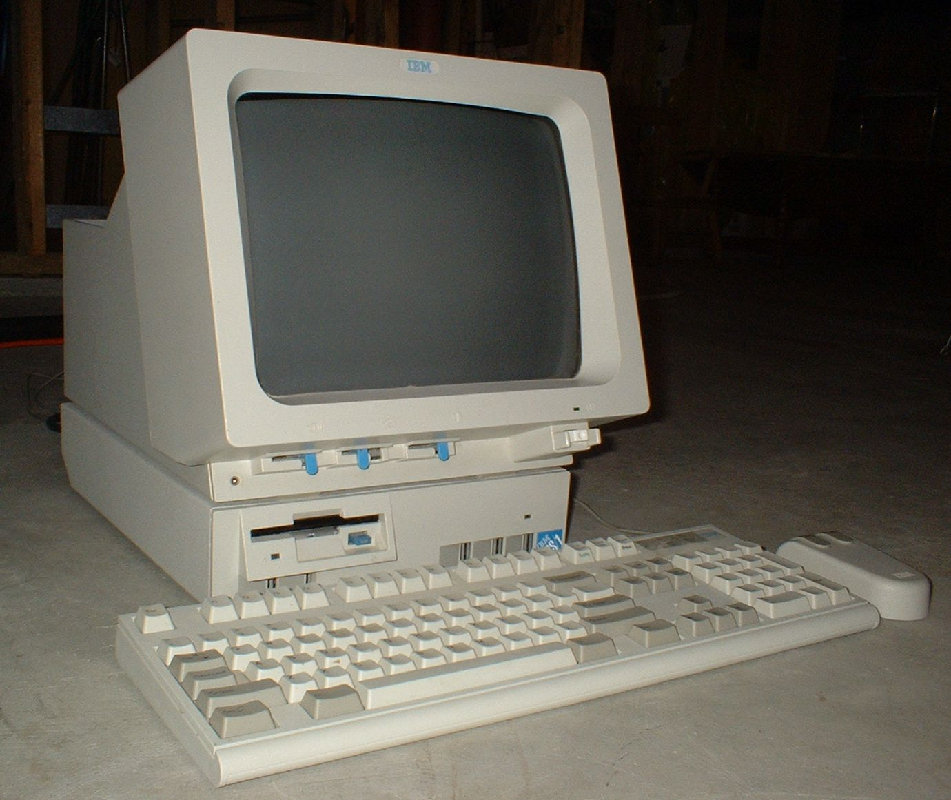 I created this file myself by taking a photograph of my own IBM PS/1